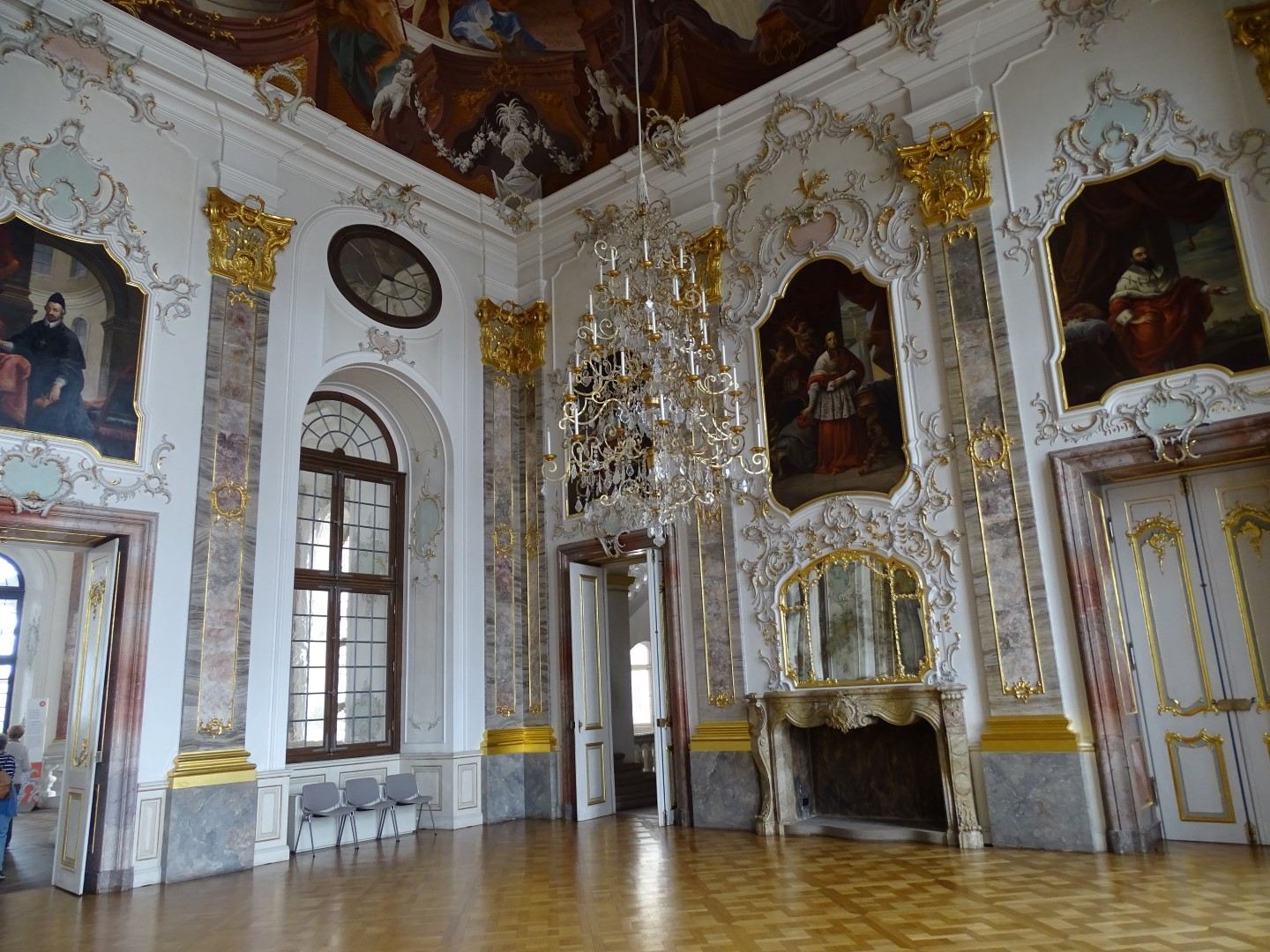 The interior of the castle Bruchsal, Prince Hall